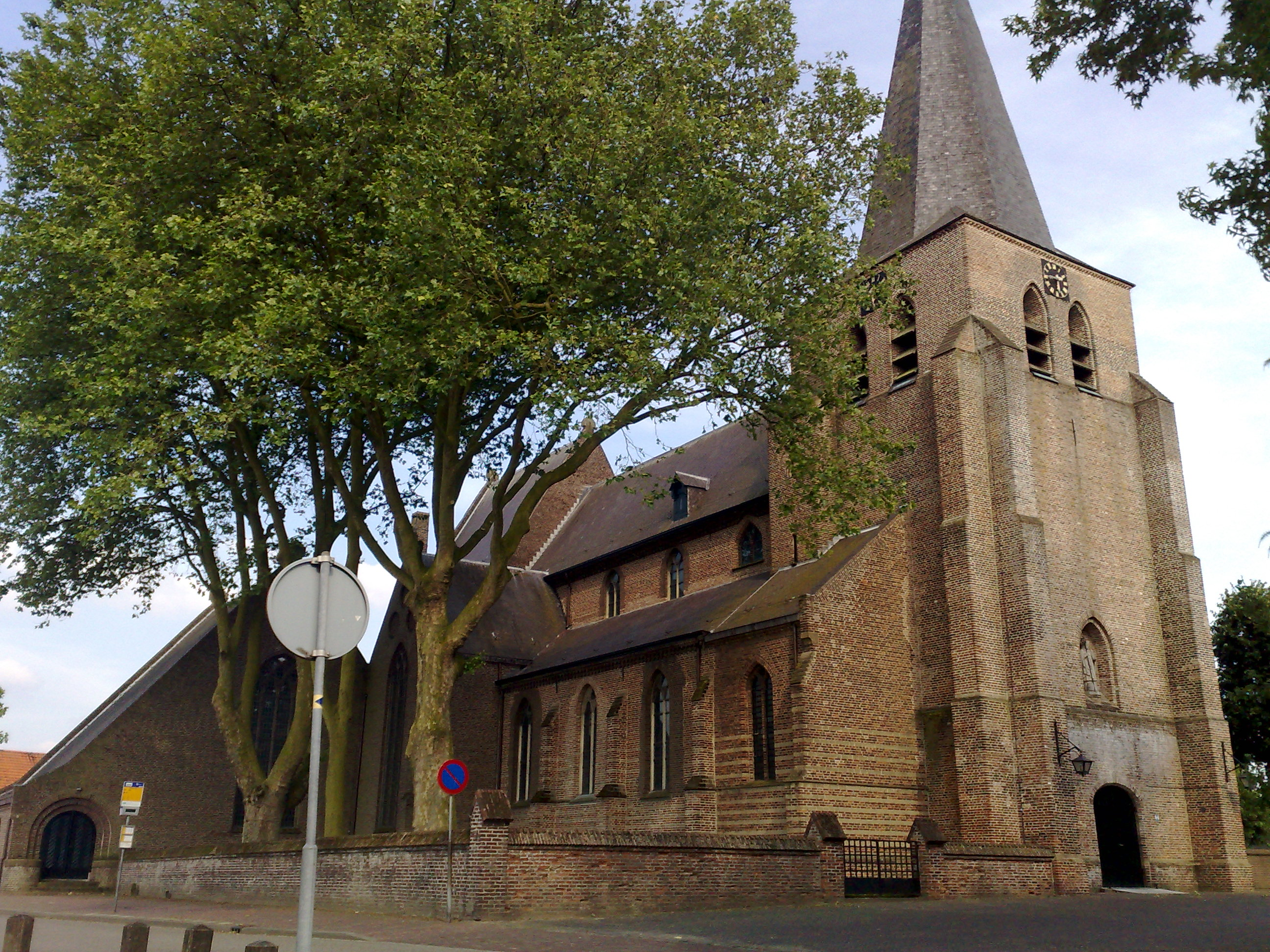 The church of Willibrordus at Eersel, North Brabant, the Netherlands